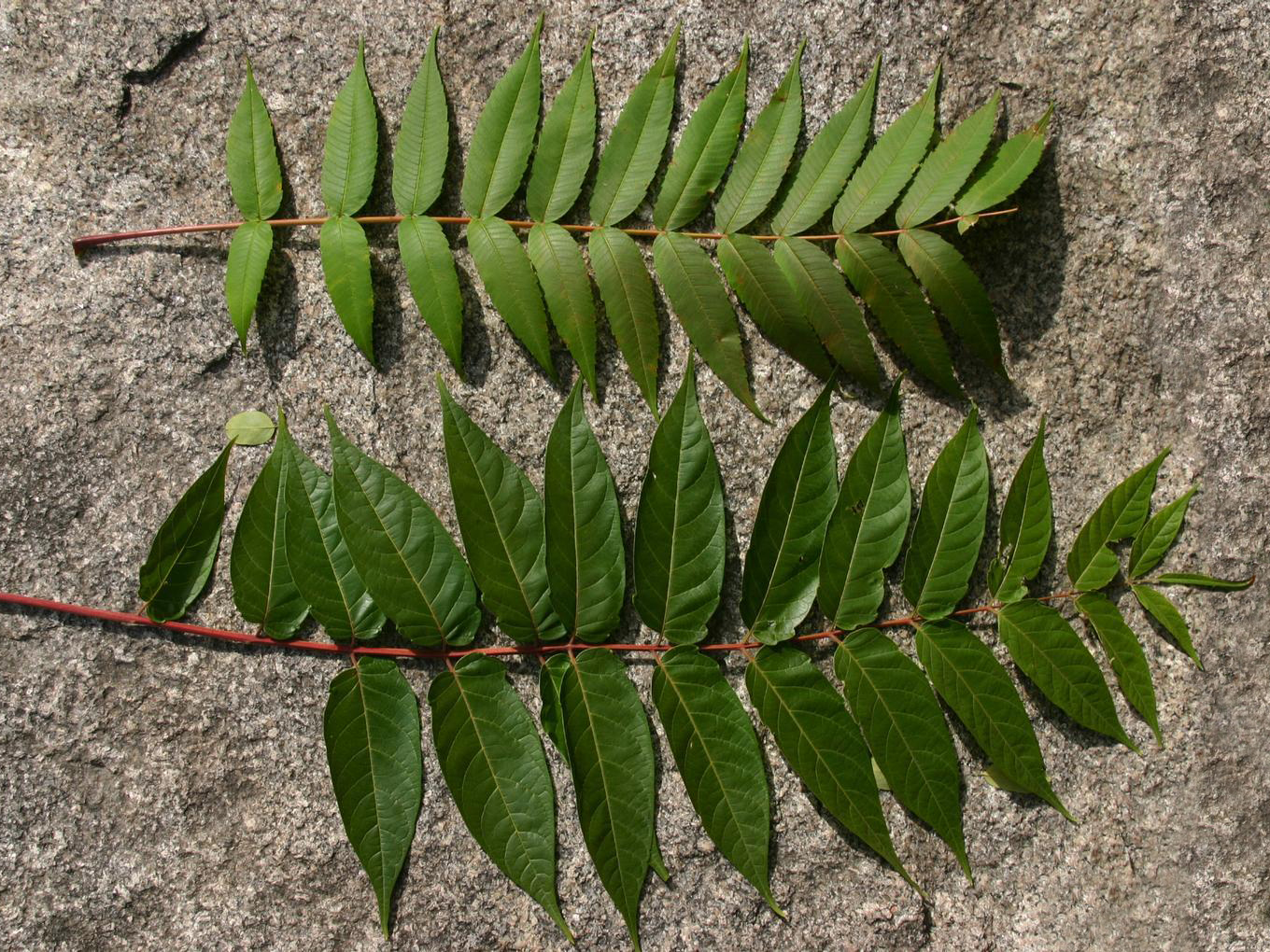 Leaf of Ailanthus altissima (P. Mill.) Swingle (tree-of-heaven, bottom), compared to Rhus (sumac) leaf (top).